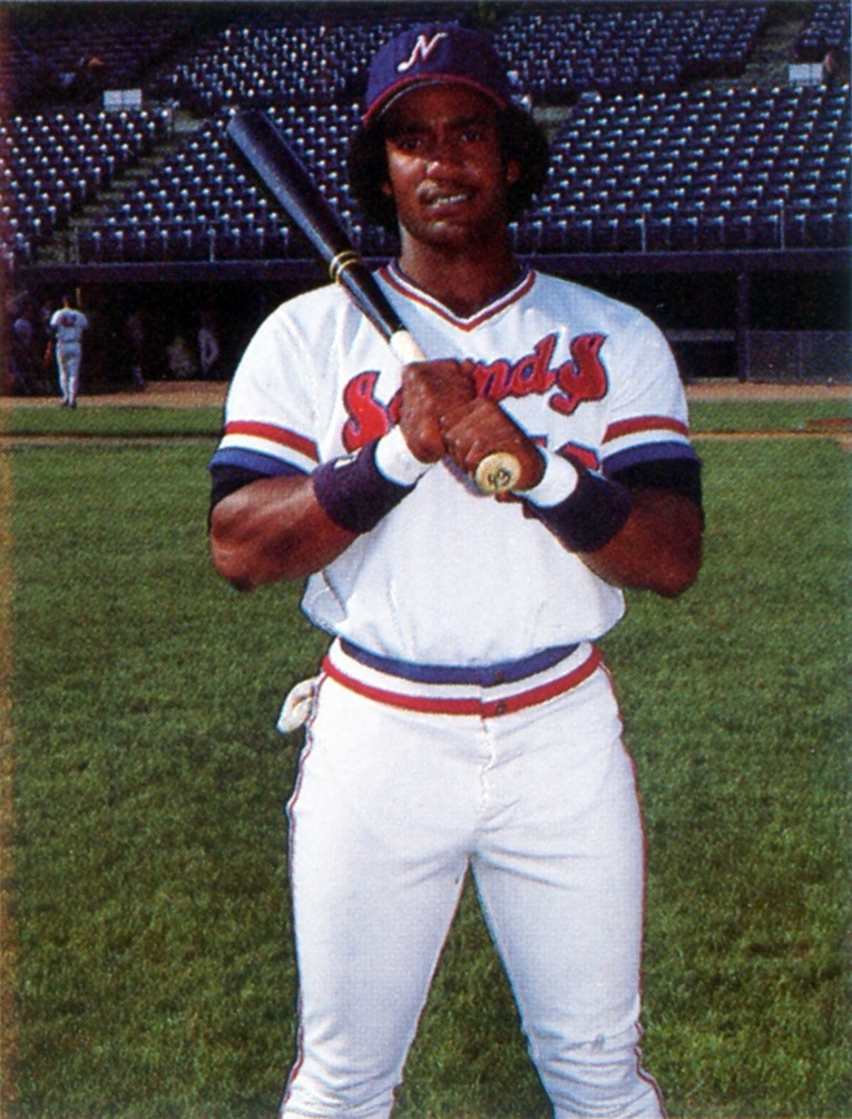 Outfielder Nelson Simmons of the 1985 Nashville Sounds Minor League Baseball team of the American Association